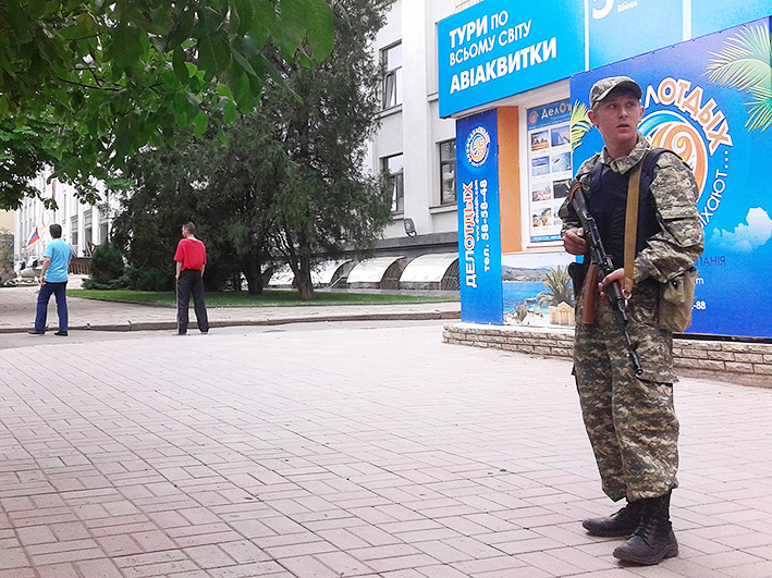 The militant of the self-proclaimed "Luhansk People's Republic."